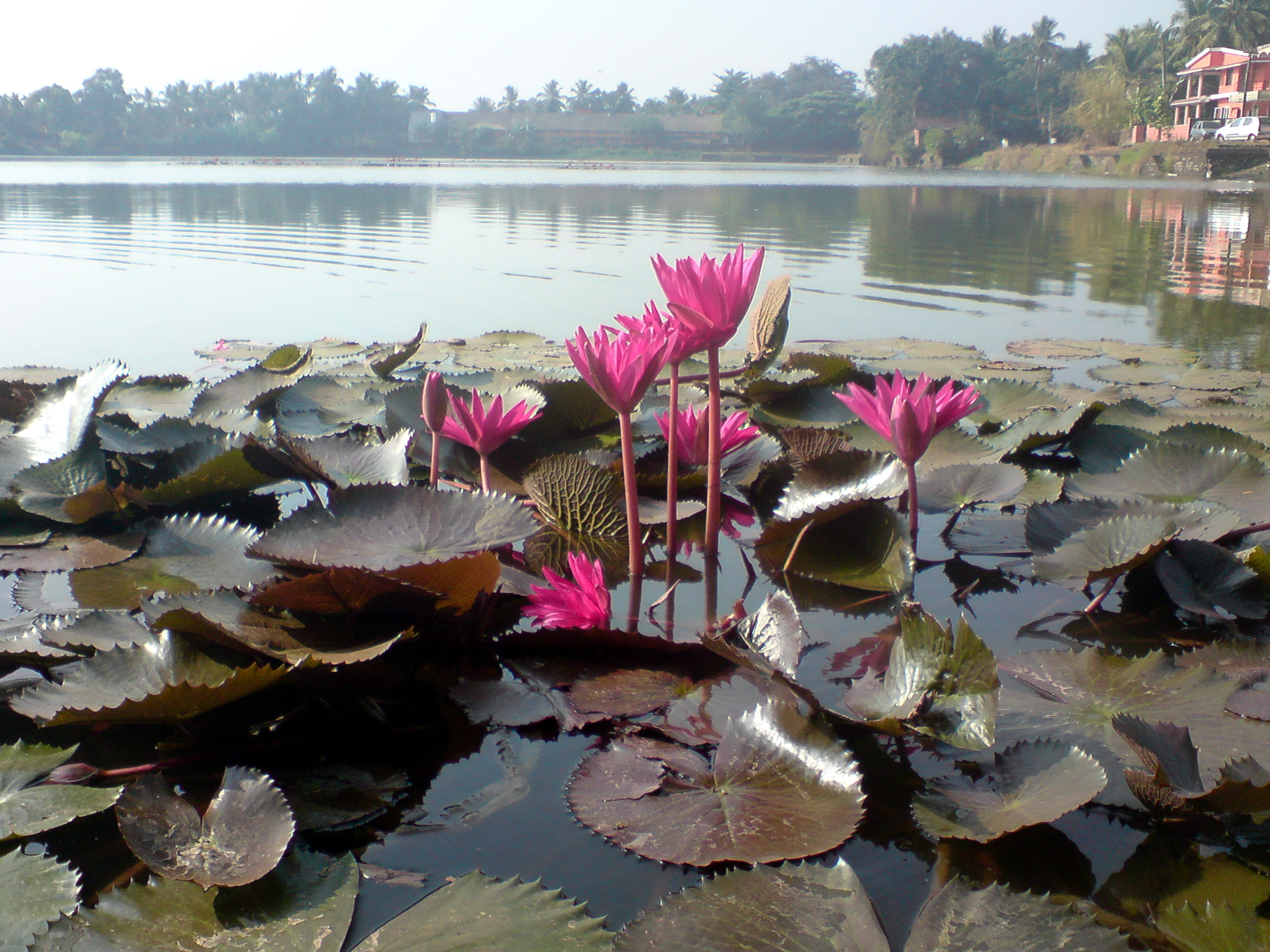 Ambal flower at Chirakkal chira, Chirakkal, Kannur